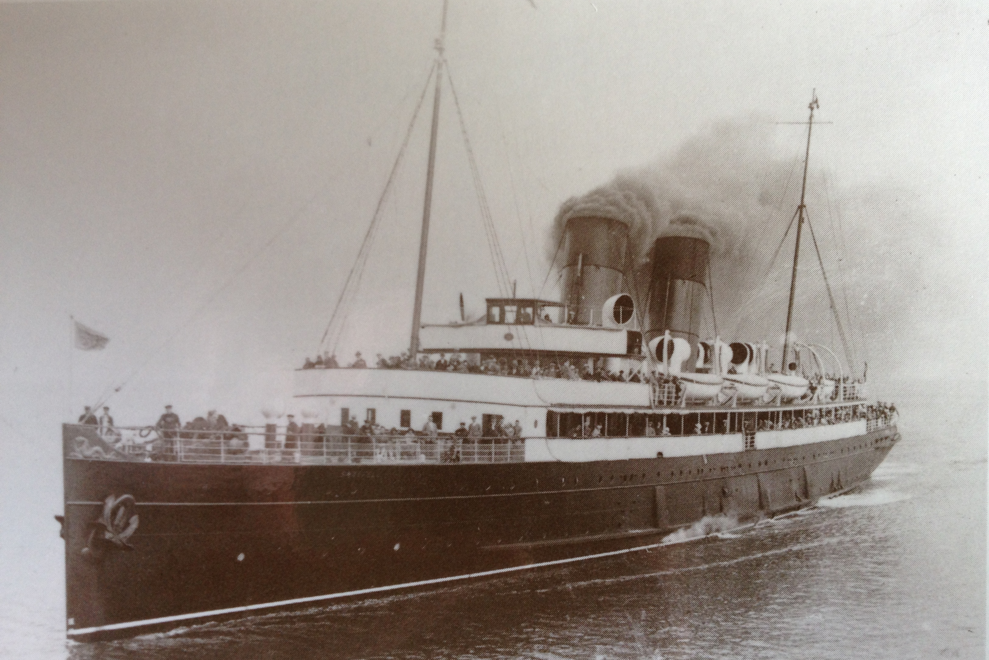 Snaefell seen in service.